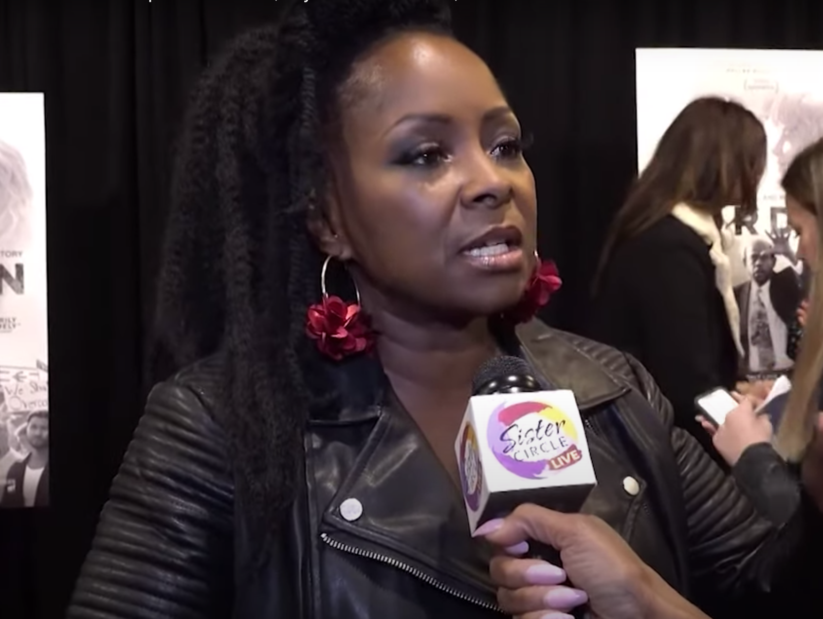 Burden Movie Red Carpet With Usher, Crystal Fox & More